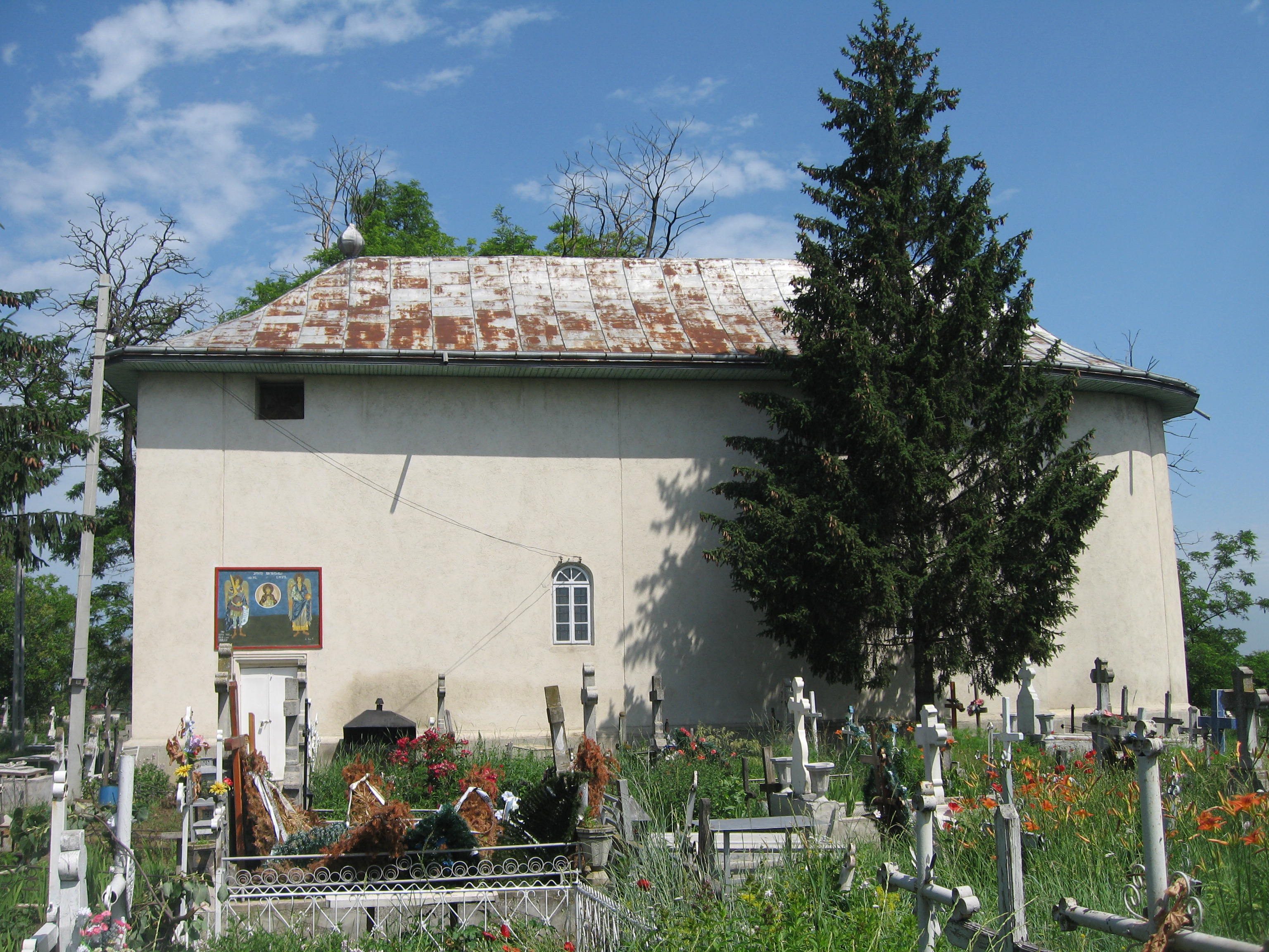 church